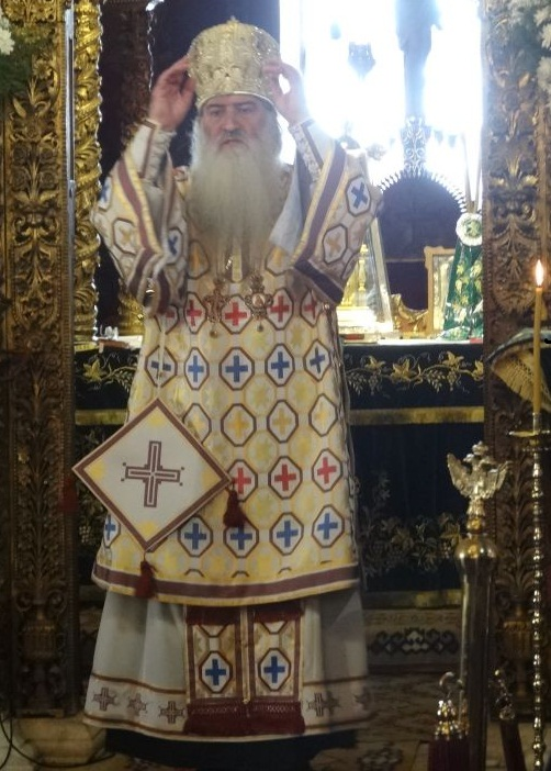 Главиницки епископ Йоан